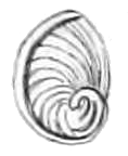 Drawing of an internal side of operculum of Cremnoconchus syhadrensis